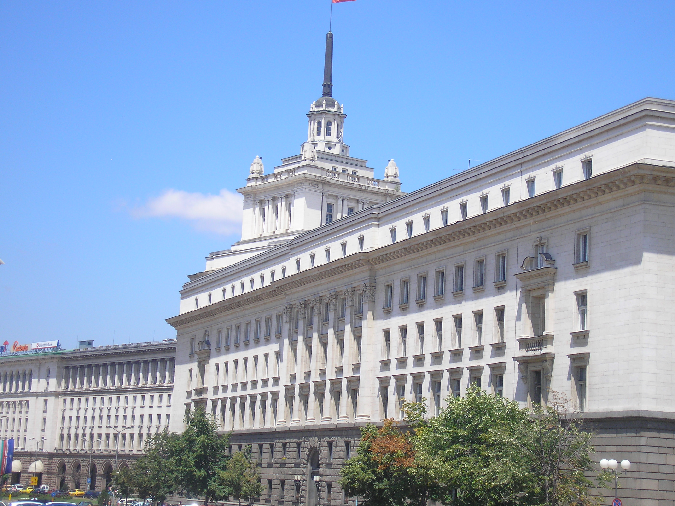 The former Bulgarian Communist Party headquarters in Sofia